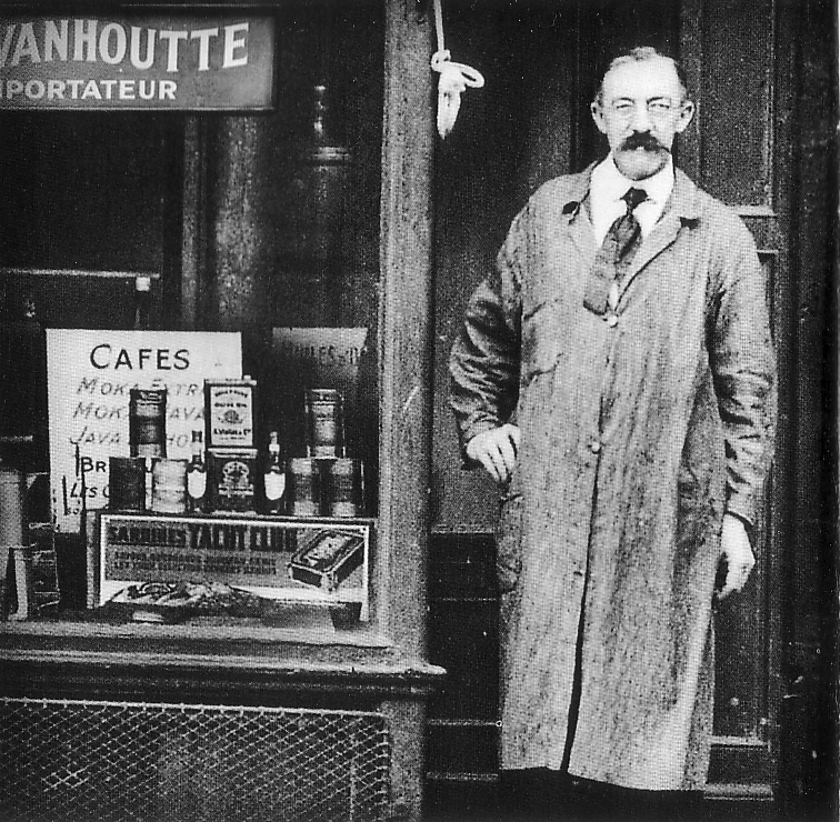 Image of A.L. Van Houtte at his store in Montreal. Scan from a brochure sent to the uploader by the company.